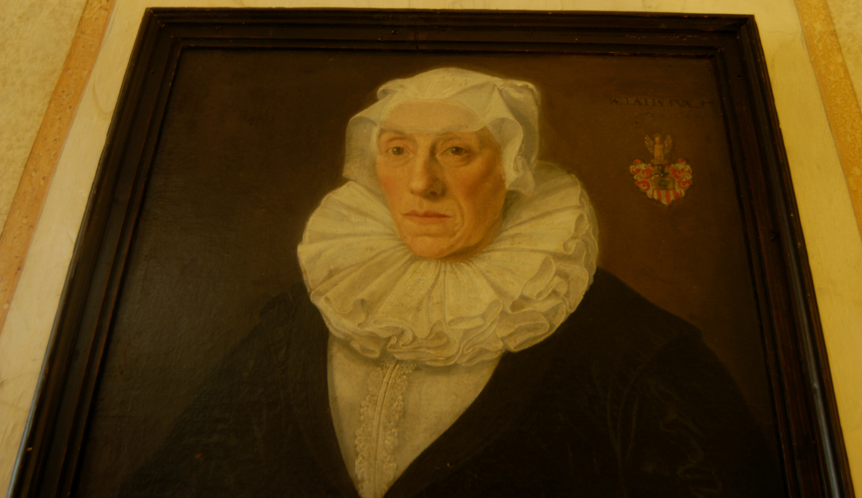 Photo (2013) by me (R. de Salis, Rodolph (talk)) of an oil-on-canvas portrait of a female of the von Salis family, C17th. Other information